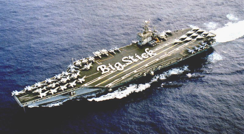 The Atlantic Ocean, Sep. 15, 1999 — Hundreds of crew members of USS Theodore Roosevelt (CVN-71), in dress white uniforms, spell out a reference to the quote of former President Theodore Roosevelt: “Speak softly and carry a big stick.” The aircraft carrier was transiting the Atlantic Ocean on her way home to Norfolk, Va., after a six-month deployment in the Adriatic Sea and Arabian Gulf.